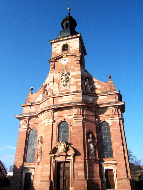 Church in Zella(Rhön) in South West Thuringia